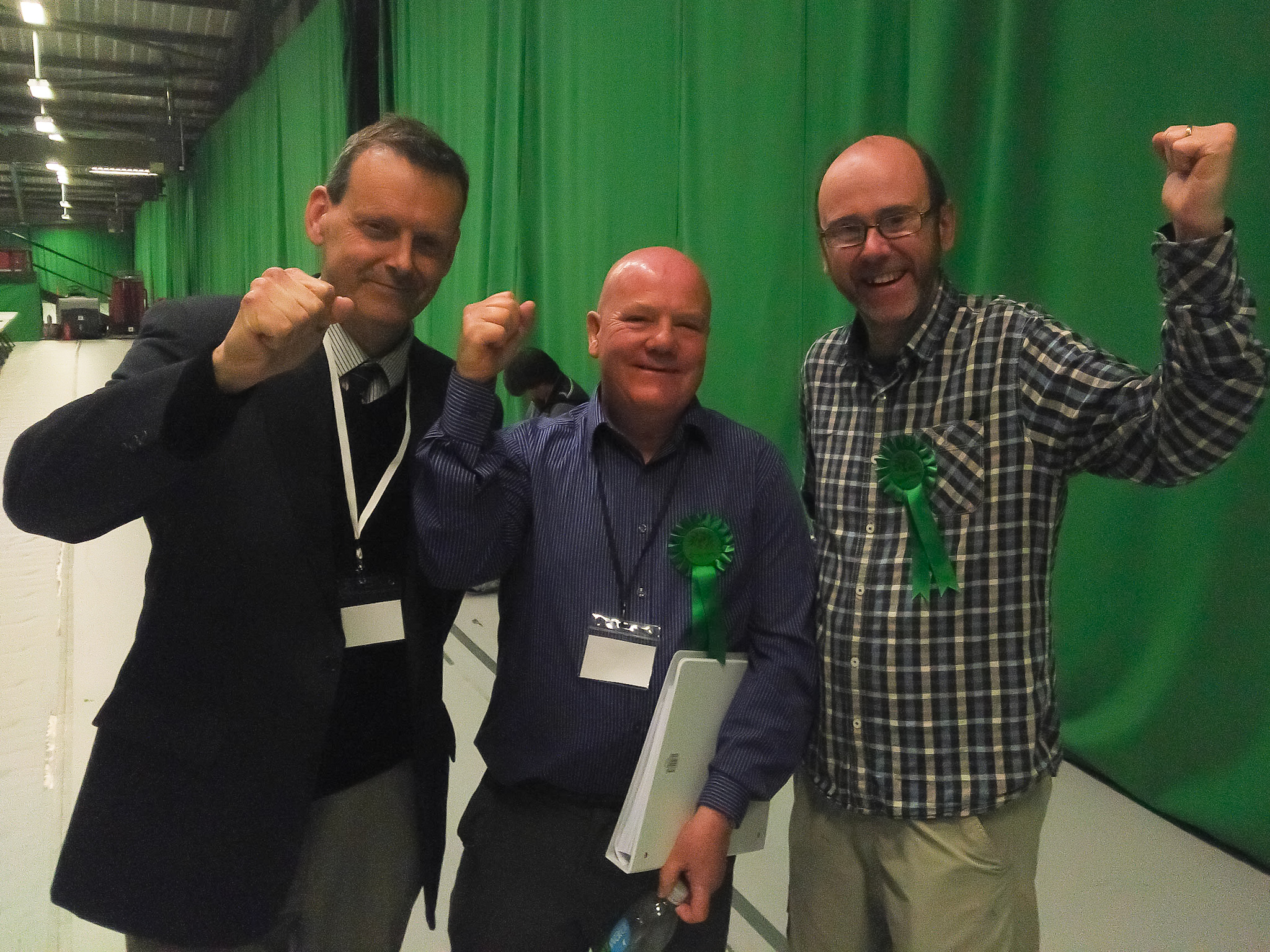 Green councillors celebrate after 2019 election victories.